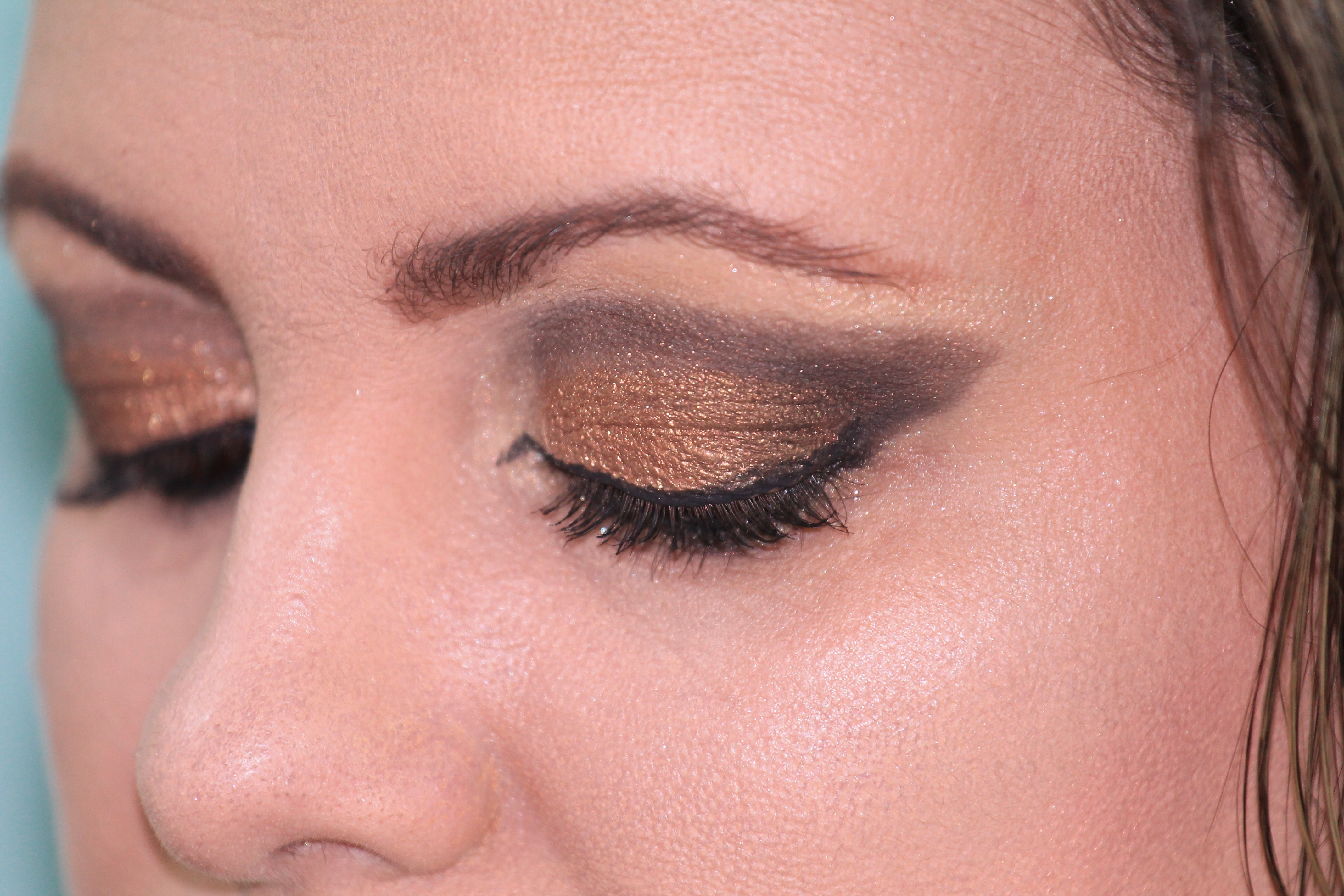 A woman wearing an orange-gold eyeshadow with a dark brown undertone and winged eyeliner.